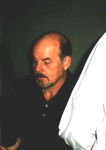 Actor Michael Ironside at the 2004 London Film and Comic Con